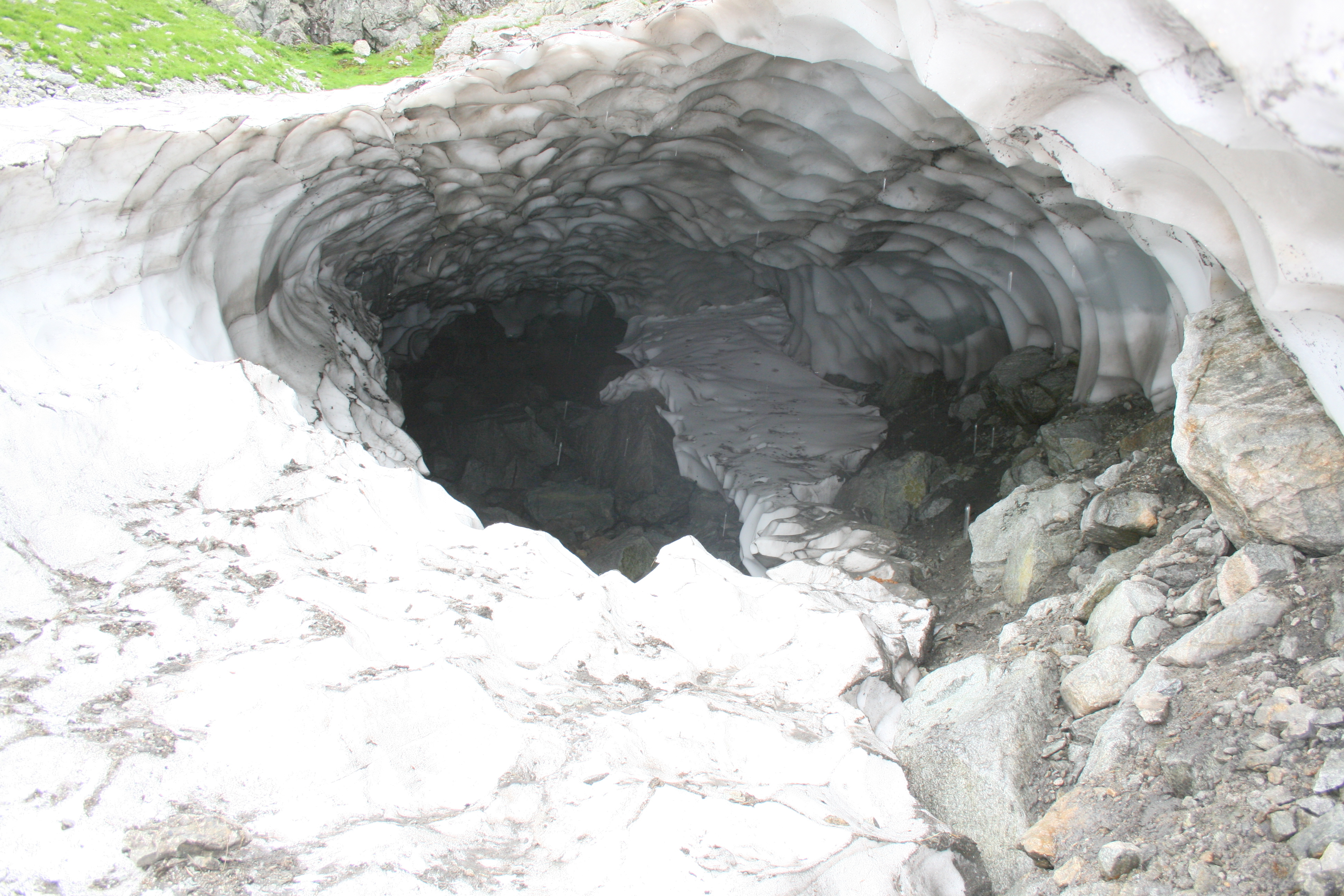 Snow cave in august